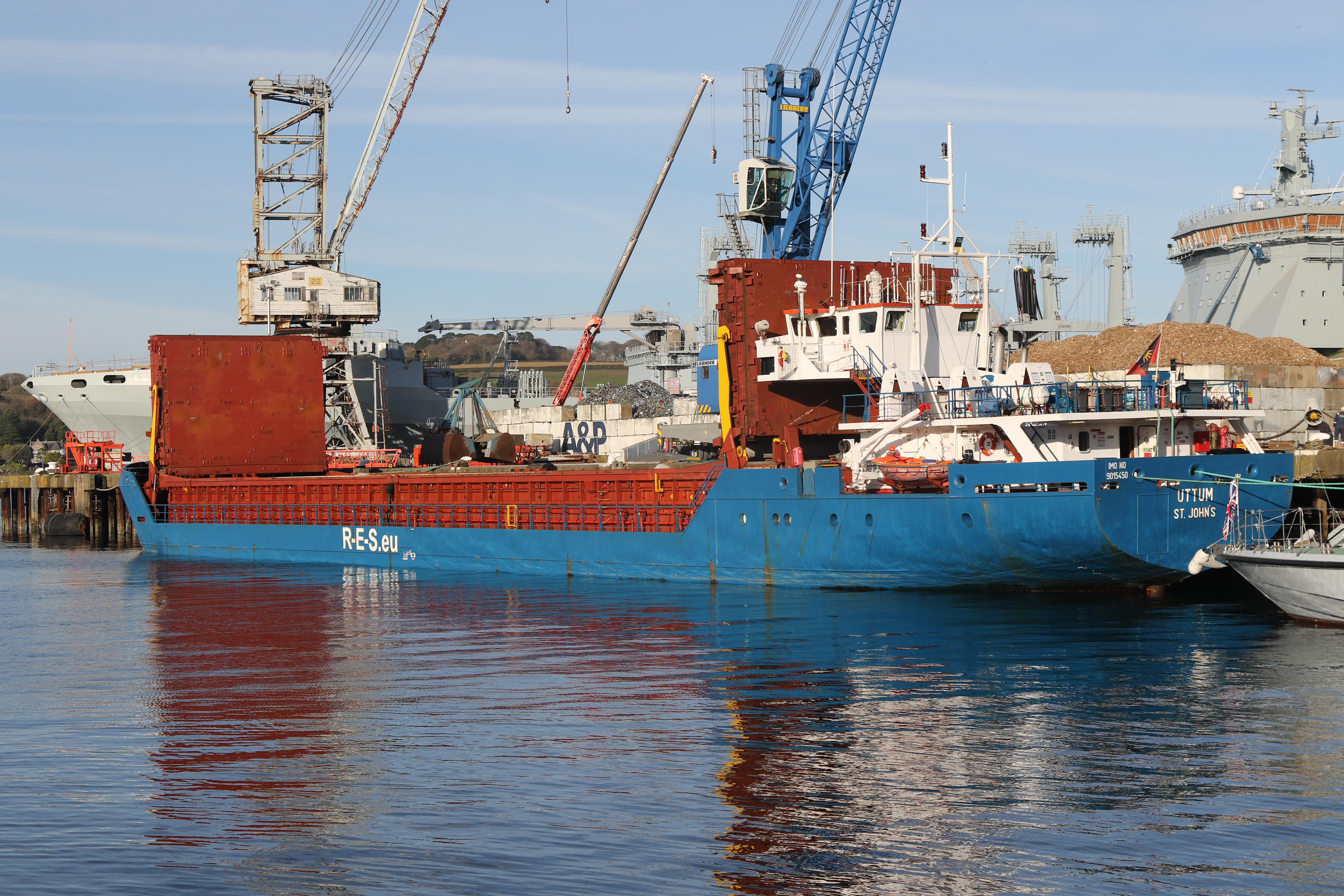 Loading mineral cargo